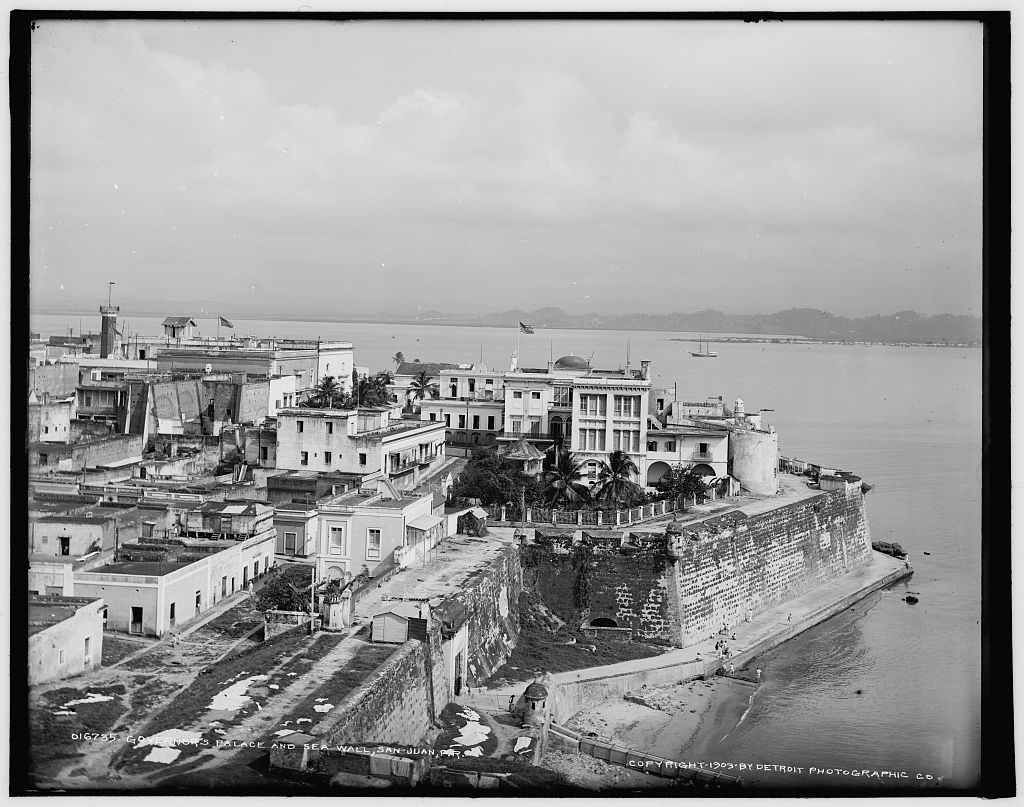 Governor's Palace and sea wall, San Juan, P.R.